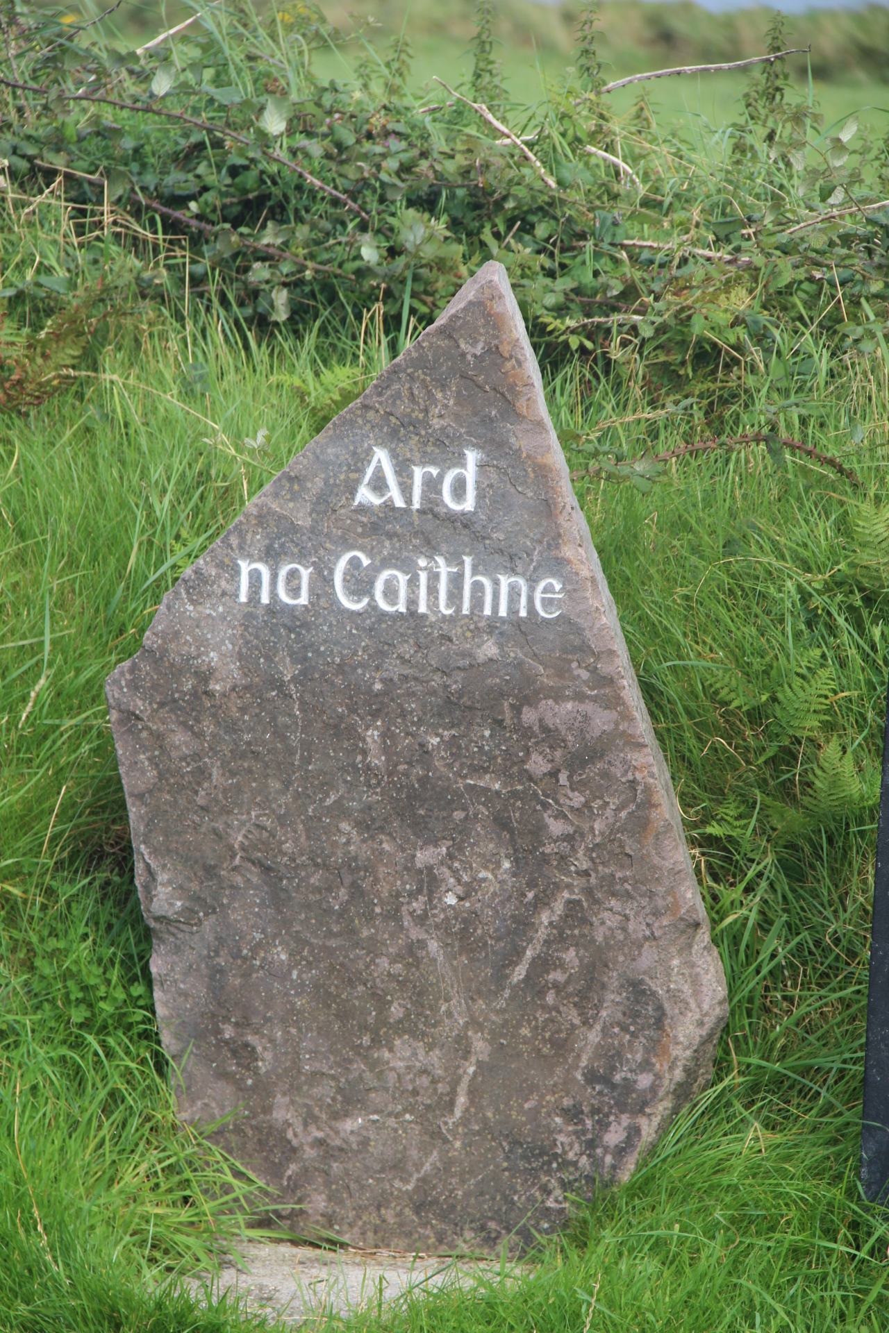 Ard na Caithne, Ciarraí